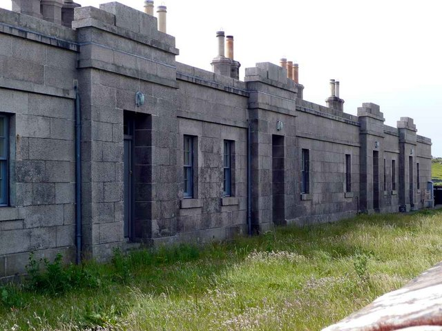 Lighthouse-keepers' housing The four families of the men who manned the Skerryvore light lived in these houses. Built in a kind of Egyptian style by the Northern Lighthouse Board, the houses were considered very modern for their time.